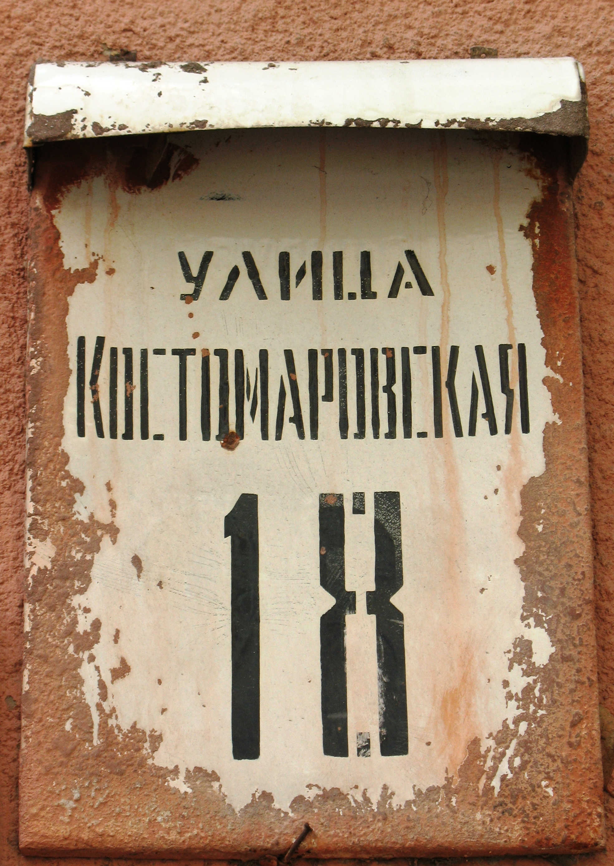 Adress in Kharkov City.